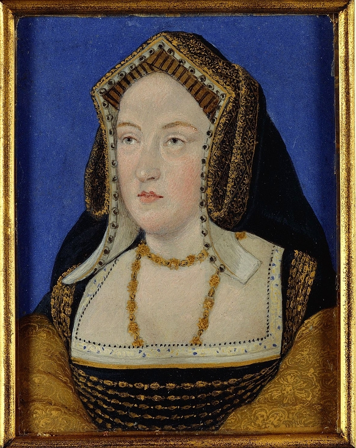 Circa 1652 miniature of Katherine of Aragon by Wenceslaus Hollar.